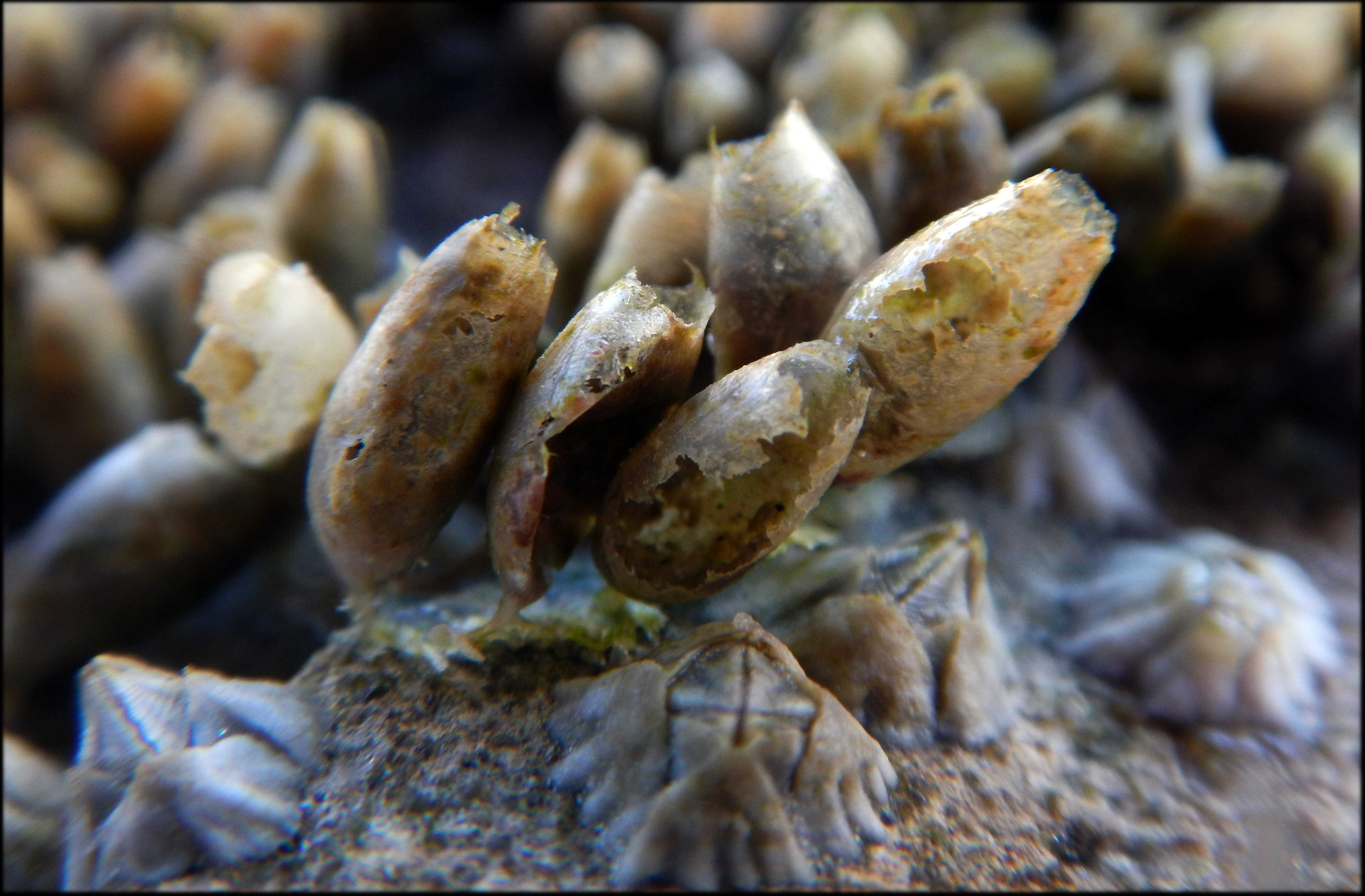 Ovigerous capsules (each containied several eggs) of gastropods Nucella lapillus, photographed at low tide on the foreshore in Wimereux (northern France) mid 2016